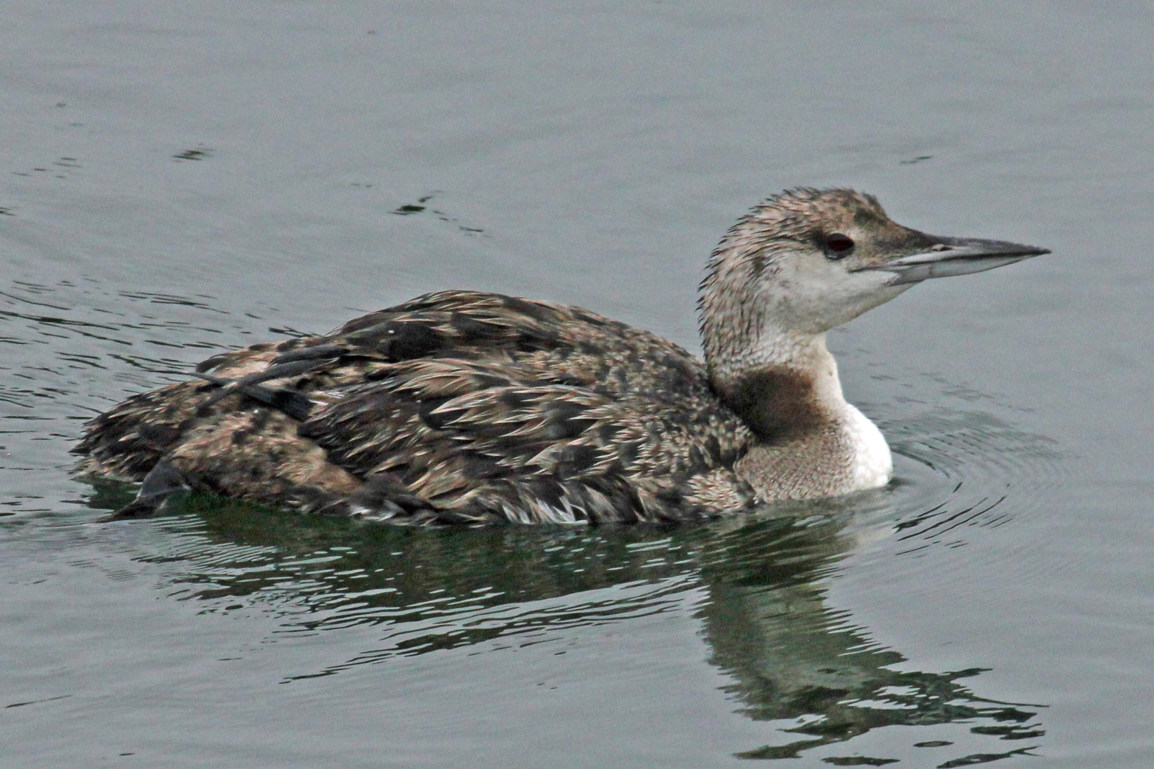 Juvenile Common Loon (Gavia immer) in the ocean off Mcgee Island, Maine.